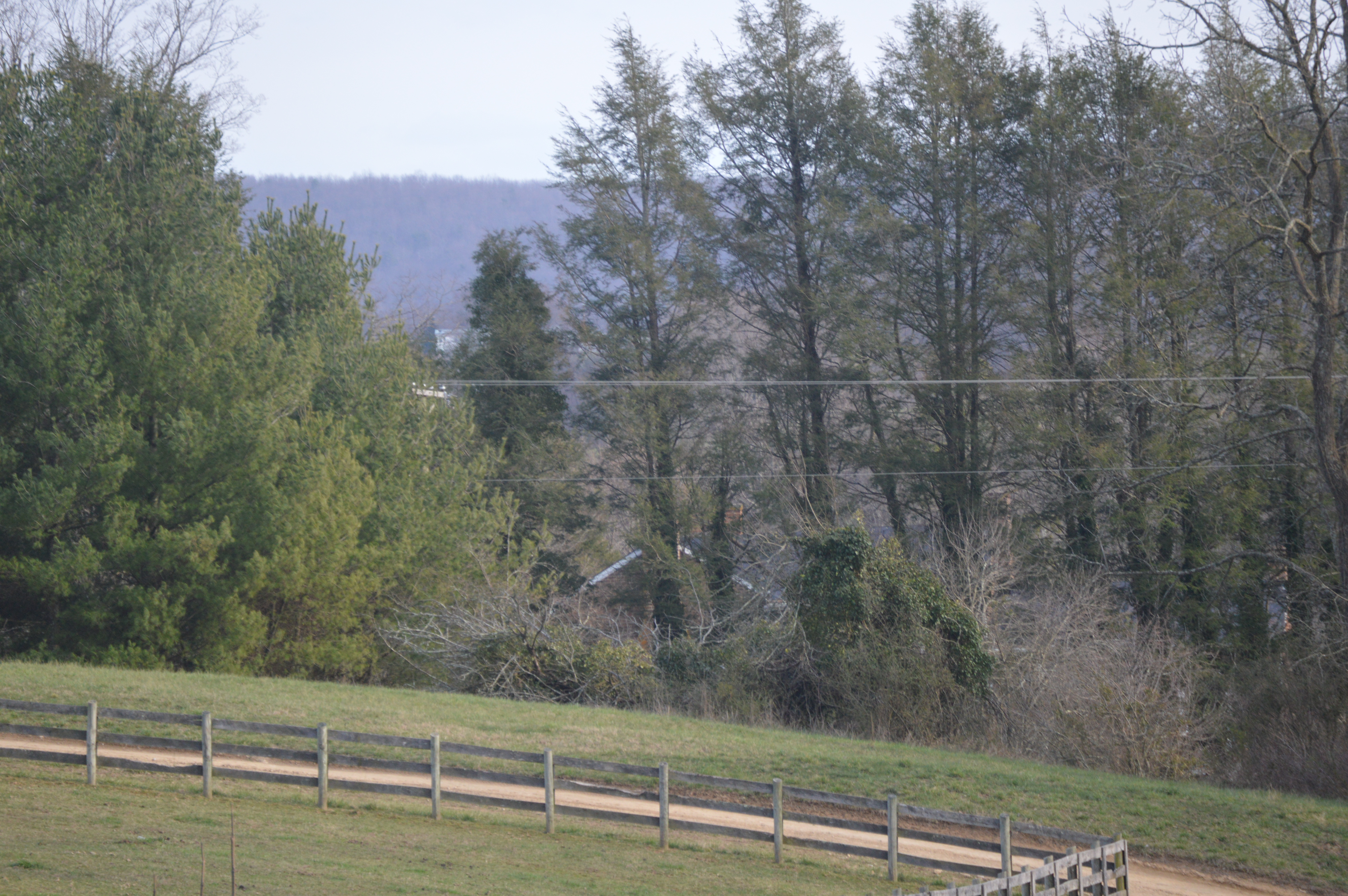 Distant view from the north of the Walnut Spring farmhouse, located on Glade Road west of Blacksburg in Montgomery County, Virginia, United States. The house is listed on the National Register of Historic Places.